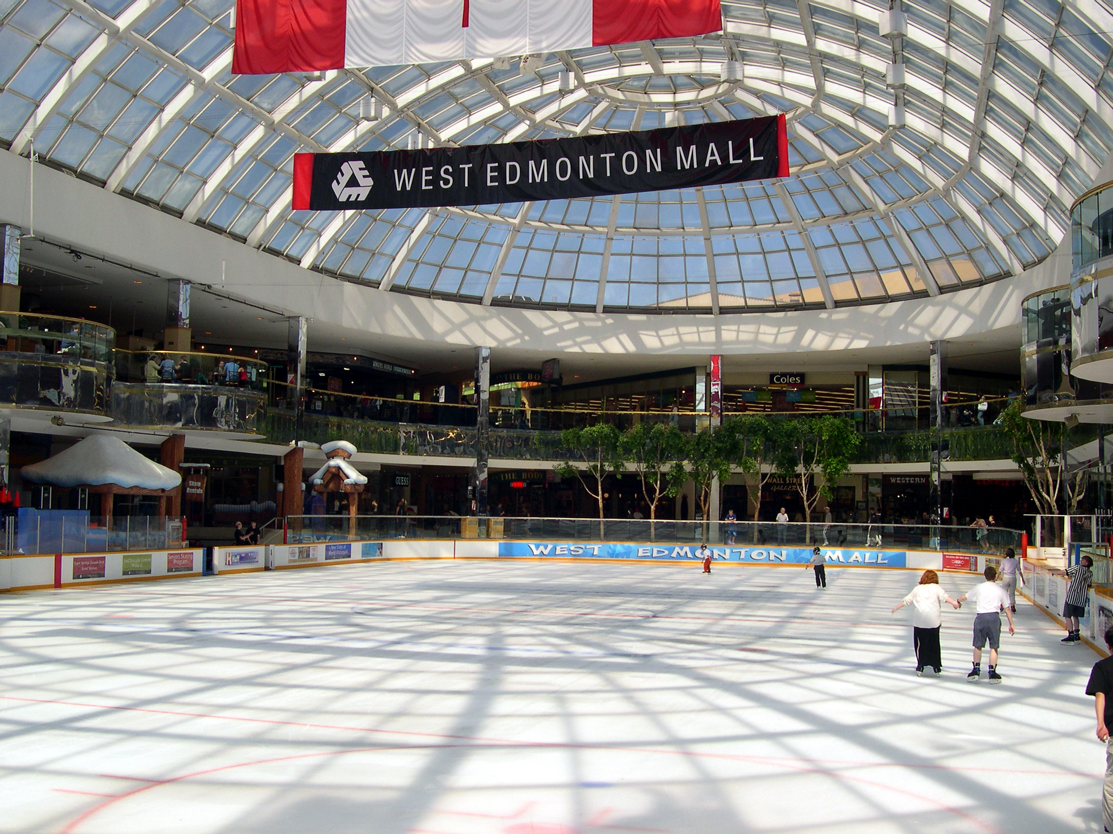 Ice rink in the WEMJune 16 - 27, 2003